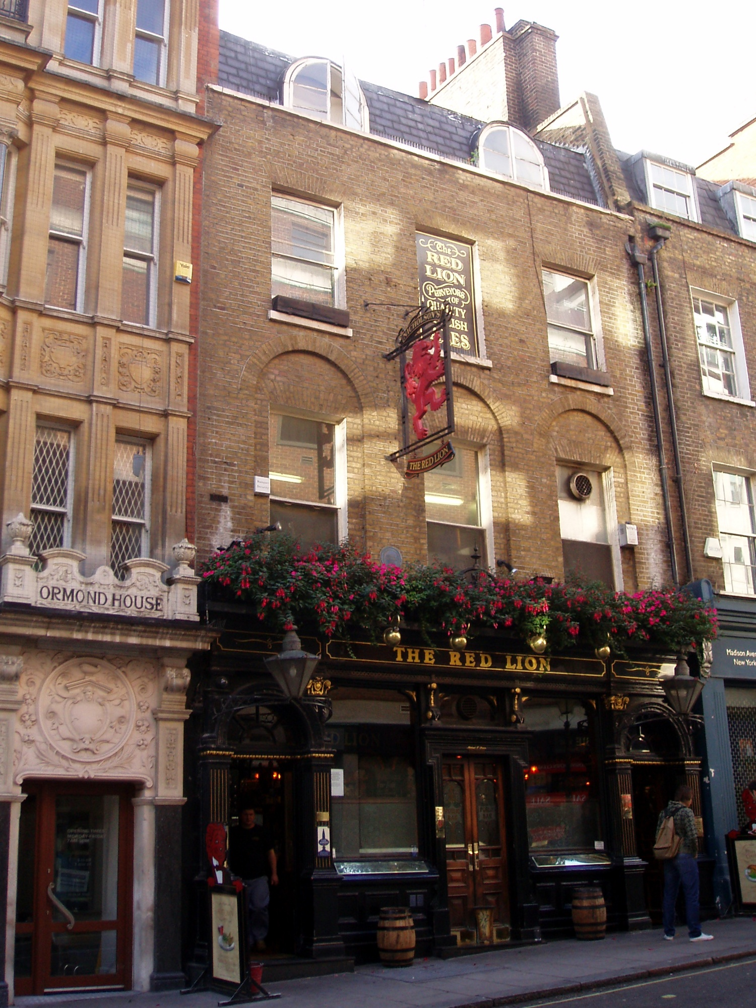 A pub off Jermyn St, which has been purchased by Fuller's since this photo was taken. Address: 2 Duke of York Street (formerly York Street). Owner: Fuller Smith Turner (website); Mitchells and Butlers [Nicholson's] (former); Ind Coope (former); Meux's (former). Links: Randomness Guide to London Fancyapint Beer in the Evening CAMRA National Inventory British History Dead Pubs (history)